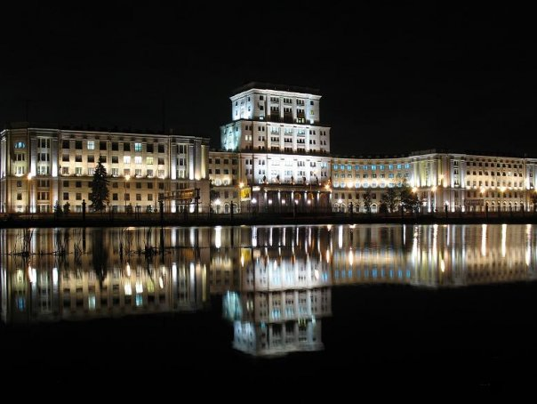 MSTU’s main building at night.